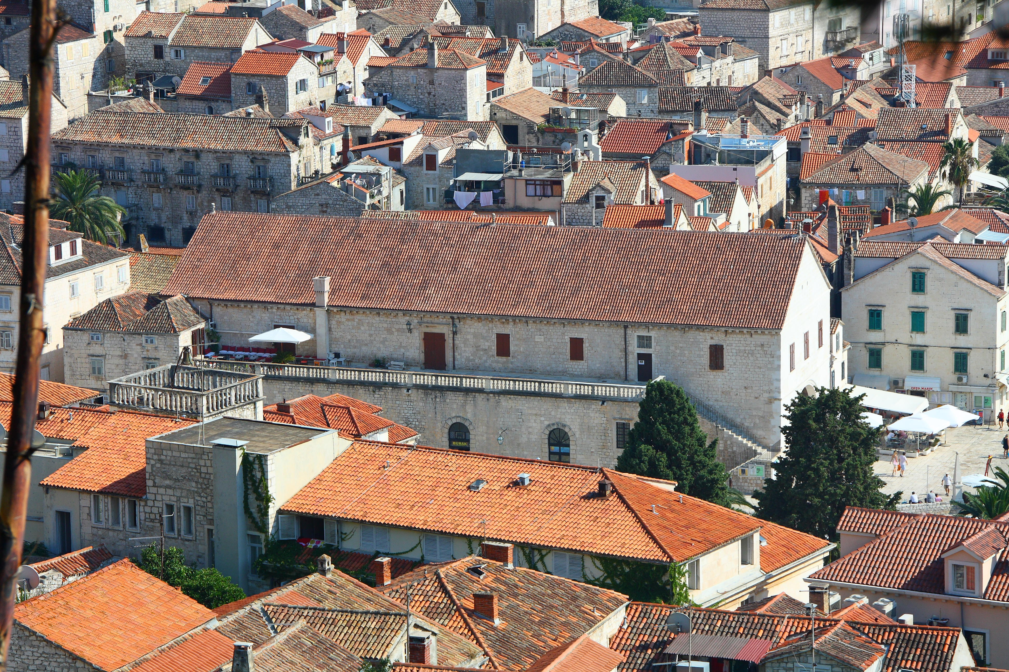 The Belvedere, the terrace of the theatre of Hvar.